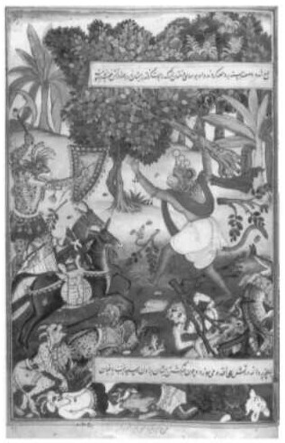 Sundarakanda episode